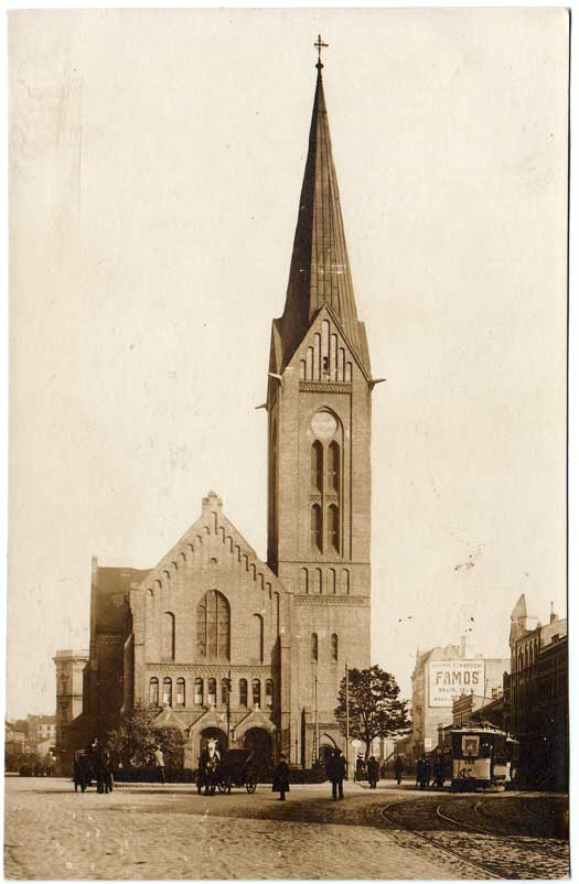 The New Gertrude Church in Riga, Latvia